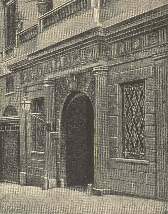 Copyright expired photo of birth place of Bishop Della Chiesa in 1906